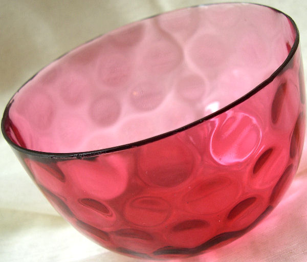 Vintage Cranberry Glass - Thumbprint